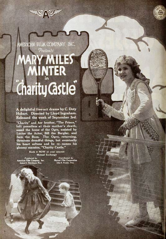 Advertisement for the American comedy drama film Charity Castle (1917) with Mary Miles Minter, on page 8 of the September 8, 1917 Exhibitors Herald.